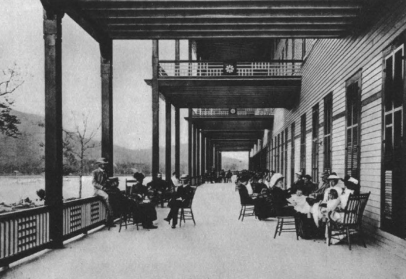 Prospect House veranda